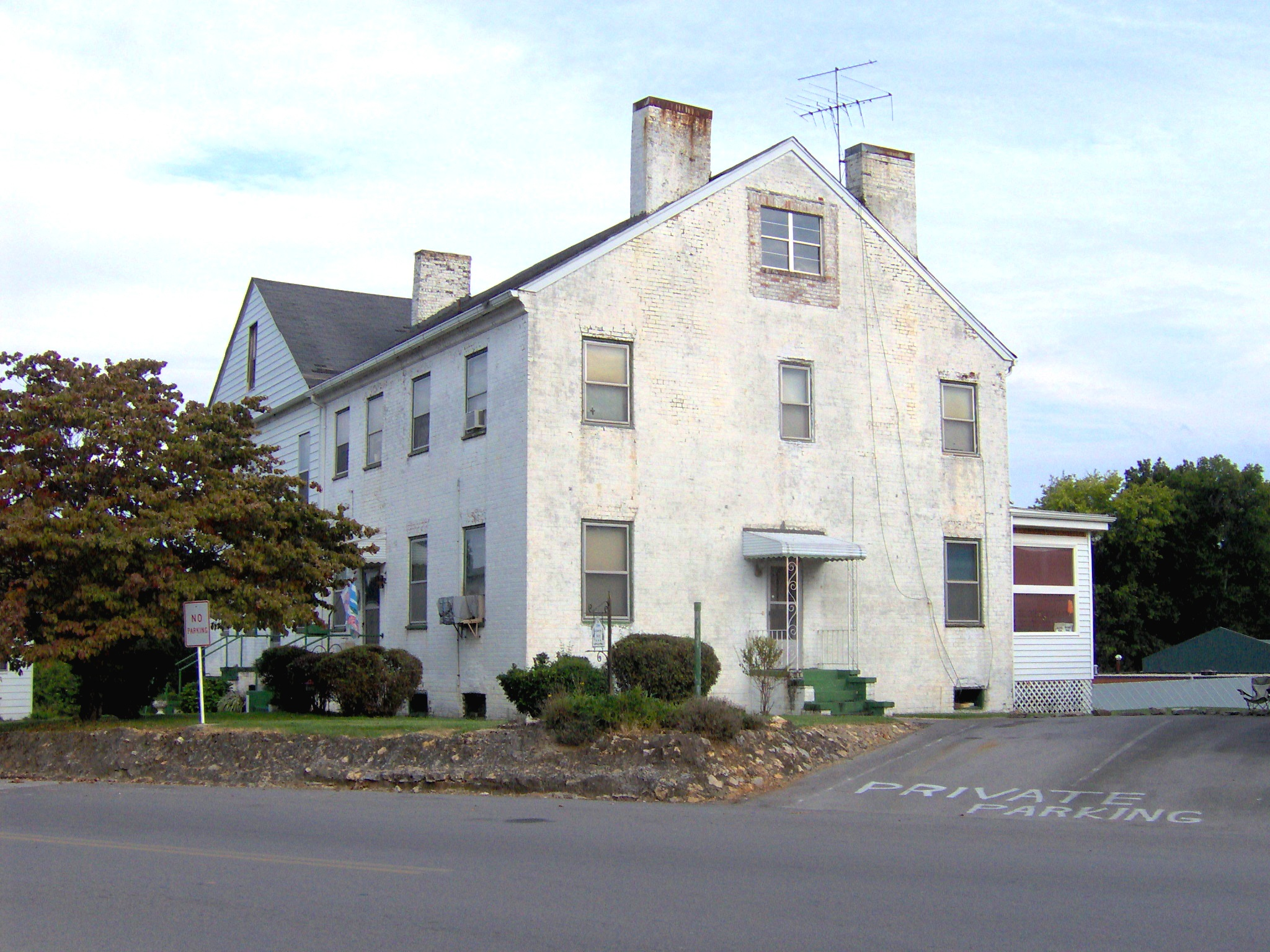 The William Ballard Lenoir House, now the Ledbetter Apartments, in Lenoir City, Tennessee, USA. The house was originally built in 1821, but has since been extensively altered.